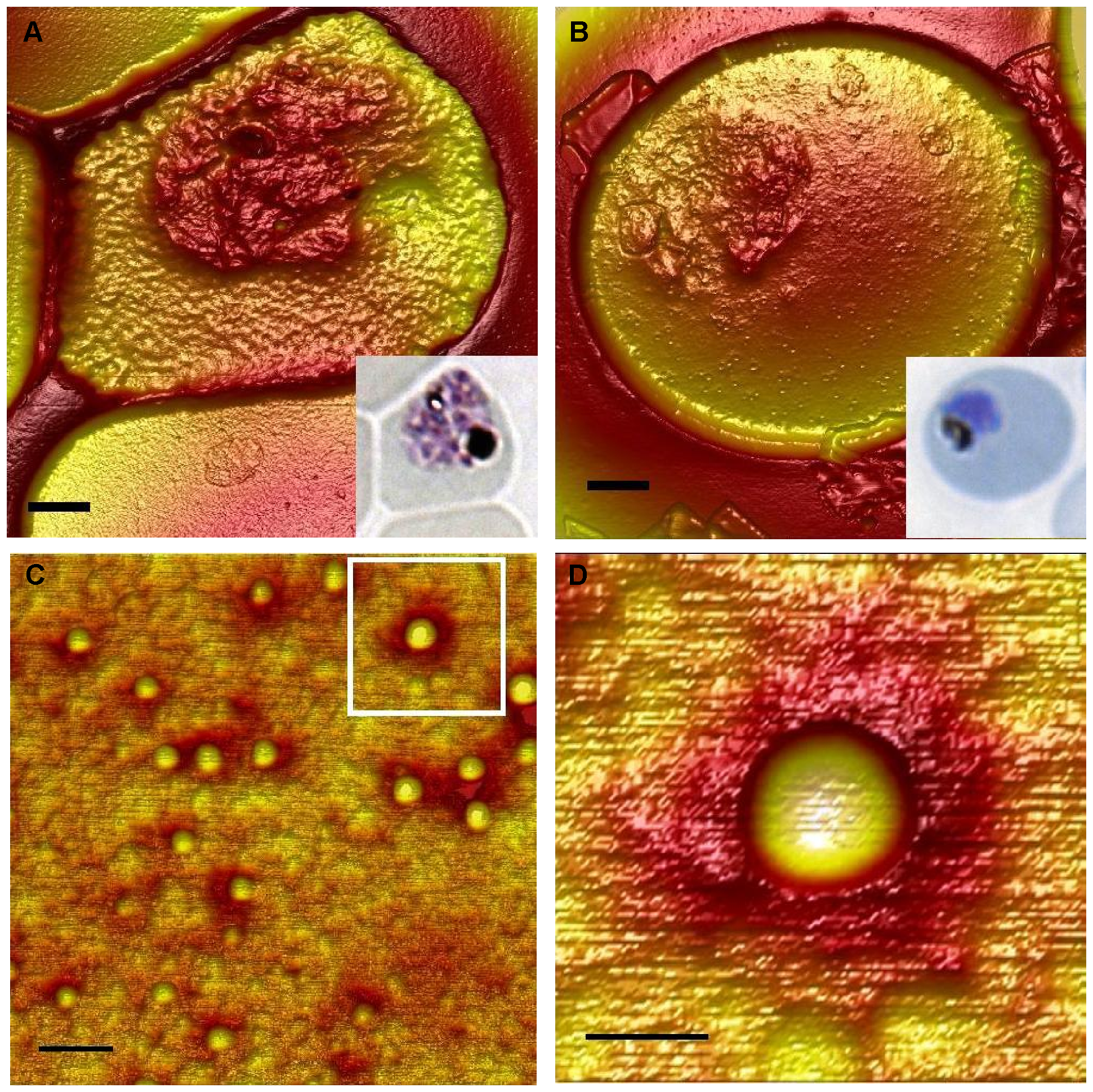 Atomic force micrographs of erythrocytes infected by a early schizont parasite